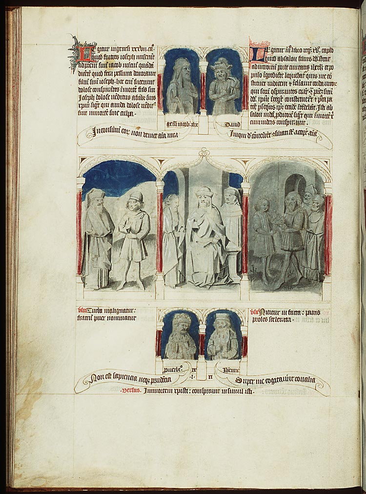 Illumination Absalom conspires against David. A crown and scepter is offered to him. From a "Biblia Pauperum" (Bible of the Poor) (manuscript "Den Haag, MMW, 10 A 15")